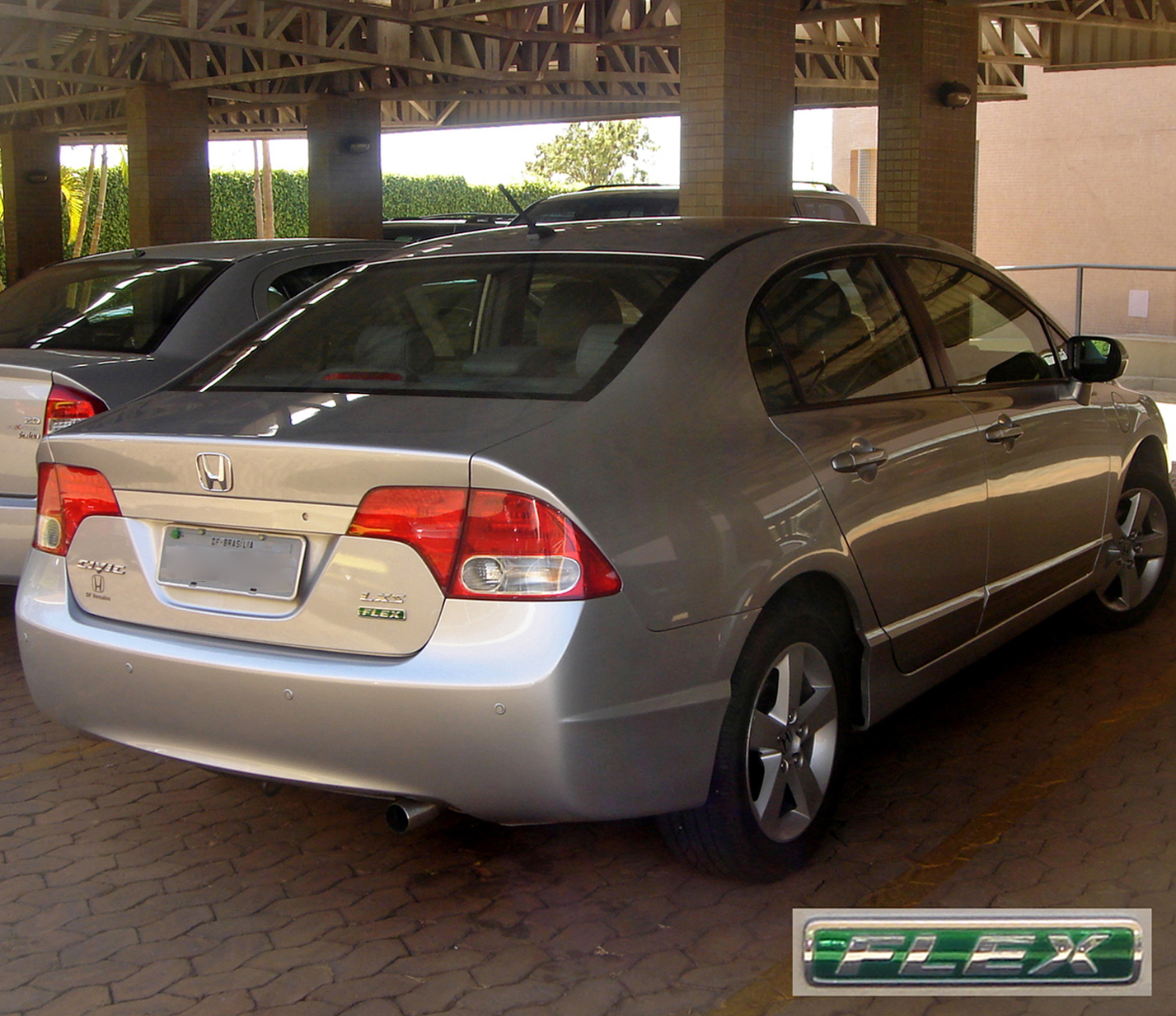 Brazilian flex-fuel version of Honda Civic LXS Flex 2008, shown rear view with Flex version logo edited with Photoshop.